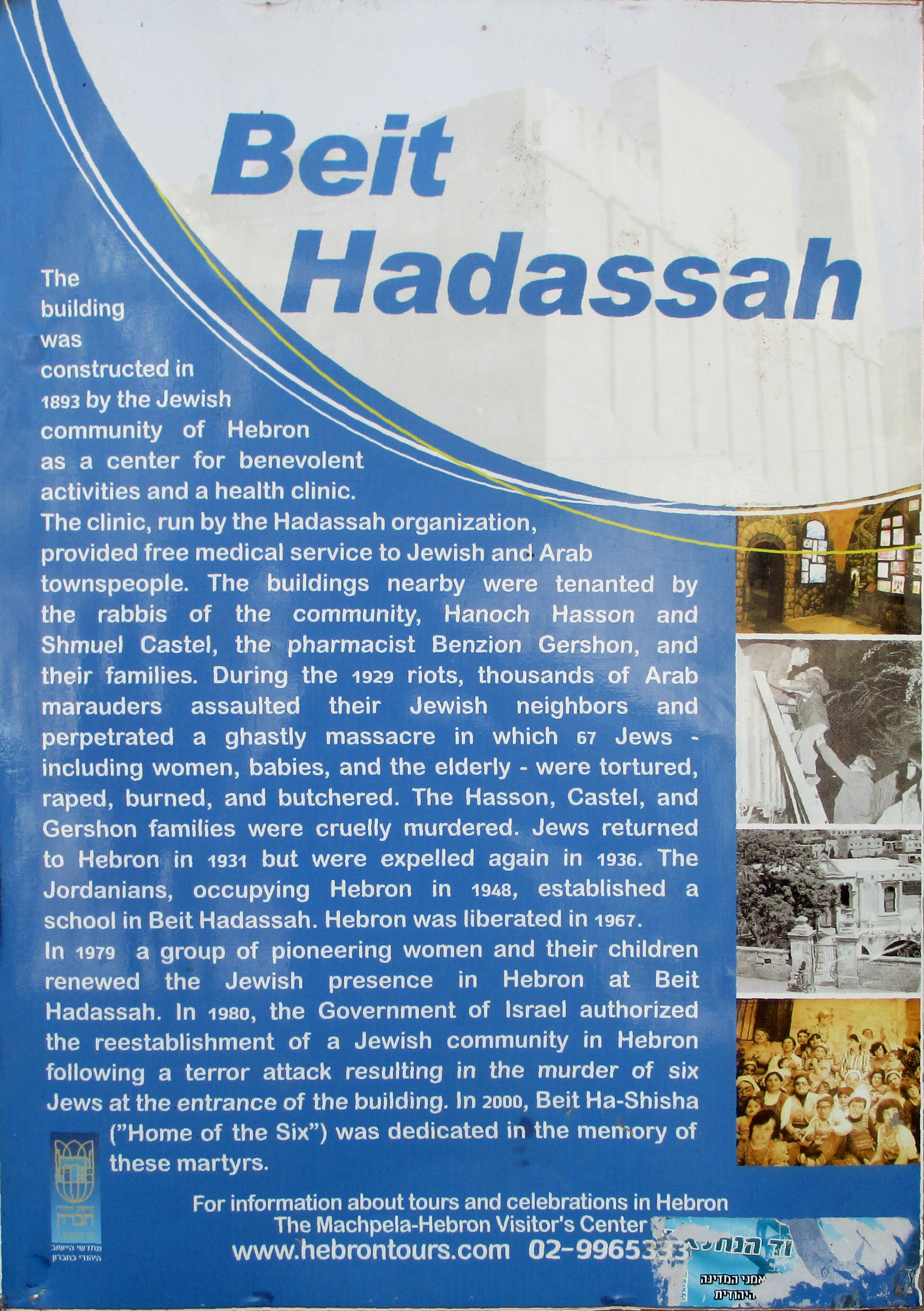 Beit Hadassah in Hebron